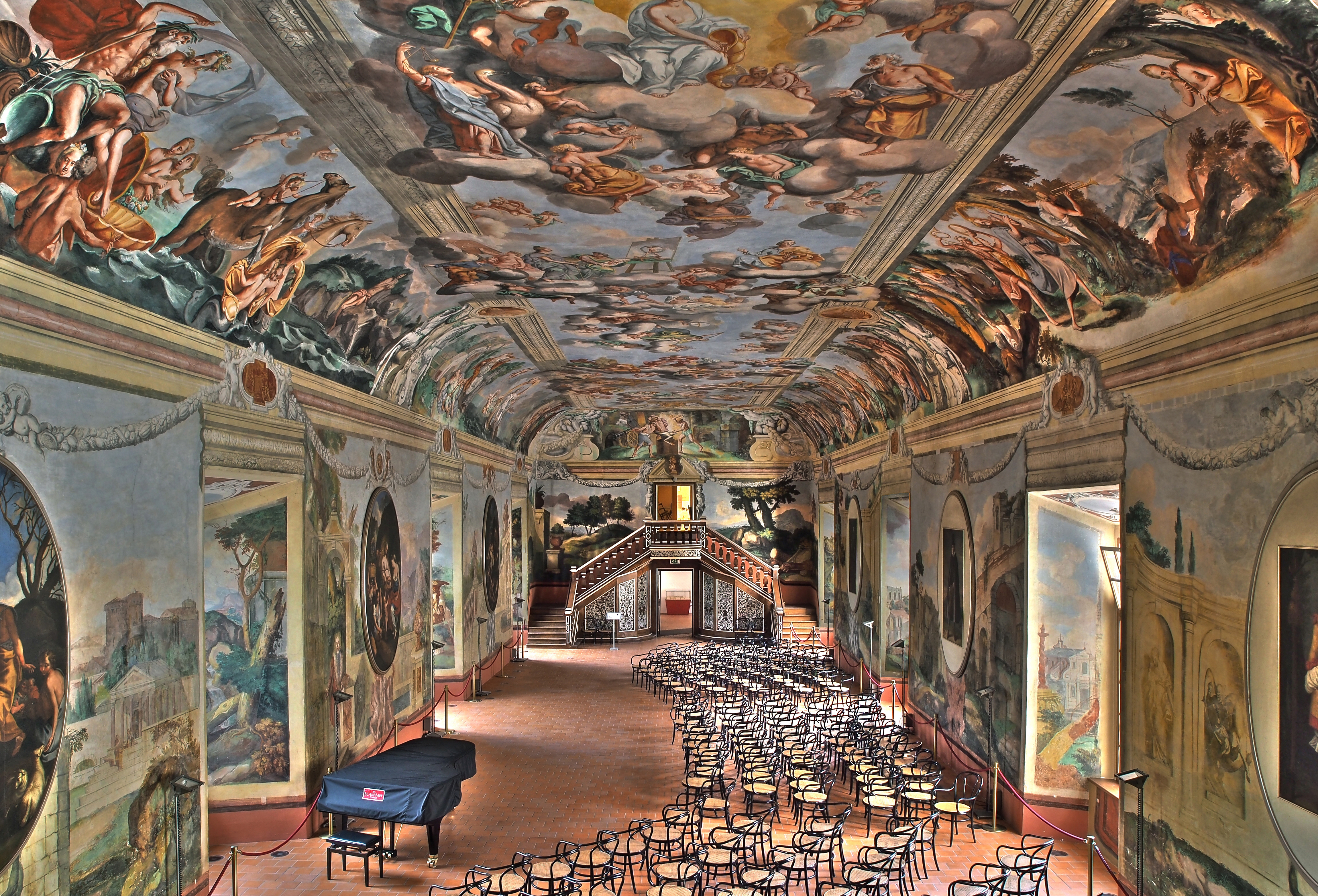 Hall of Knights (Brežice Castle), Brežice, Slovenia This photograph was taken with a Olympus E-P5.